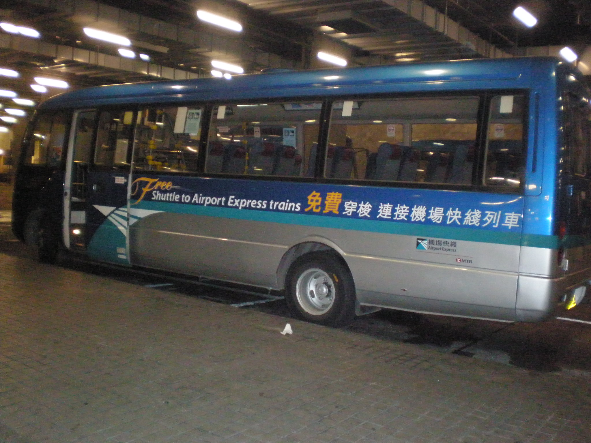 Airport Express shuttle bus K3 at Kowloon Station.